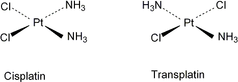 Cis and trans isomers for square planar complexes, created using ChemDraw.